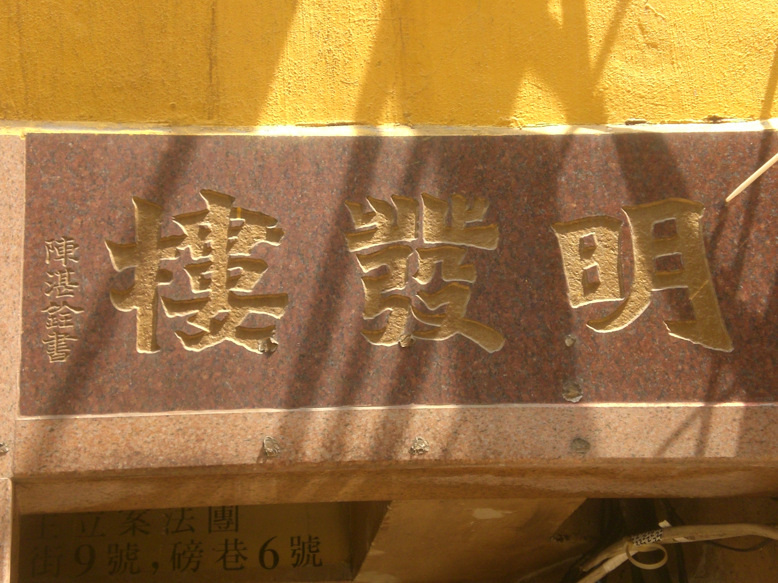 上環 磅巷 太平山街zh:明發樓 教育家陳湛銓 書法墨寶